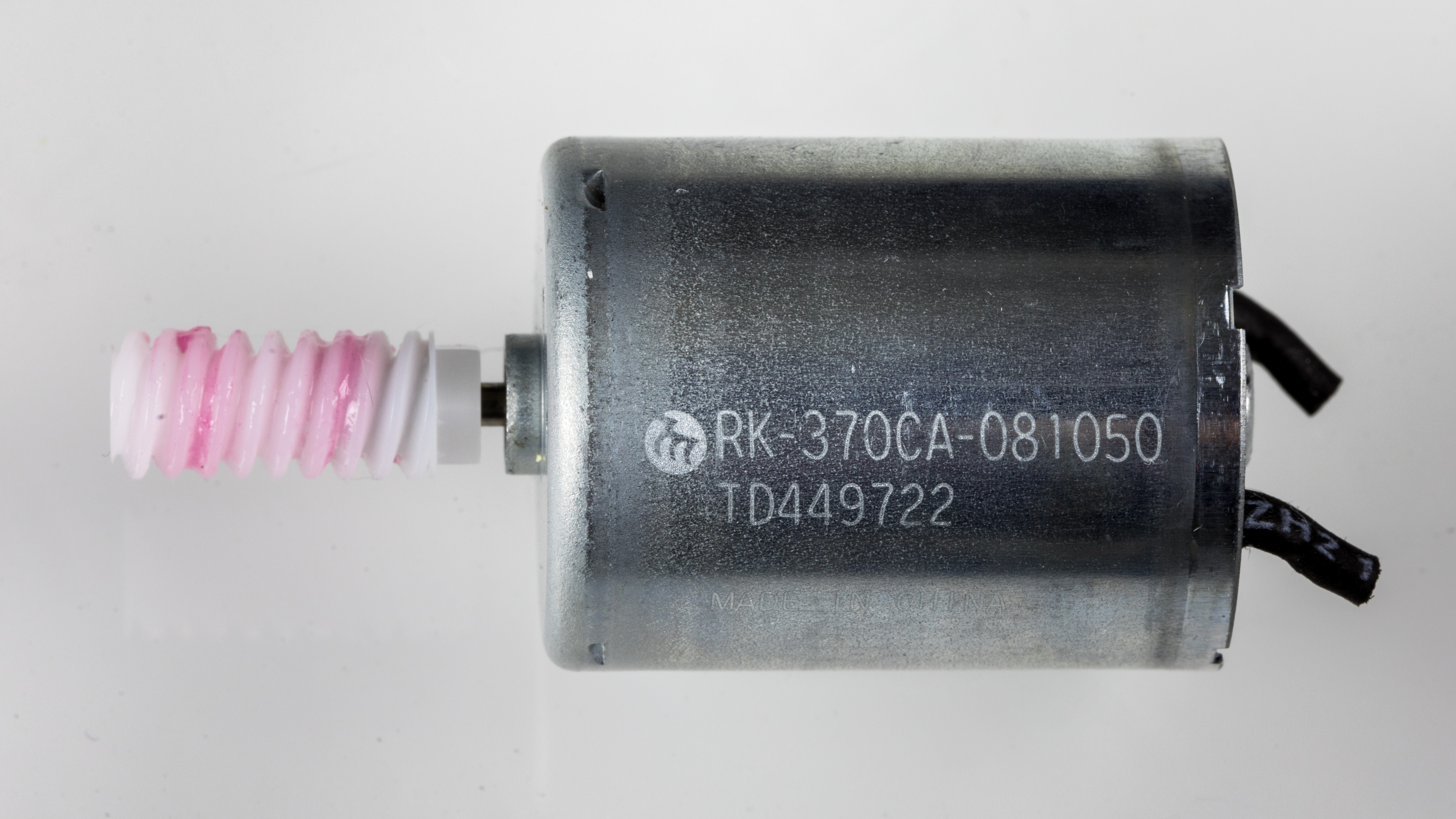 Kyocera FS-C5200DN - Mabuchi Motor RK-370CA-081050